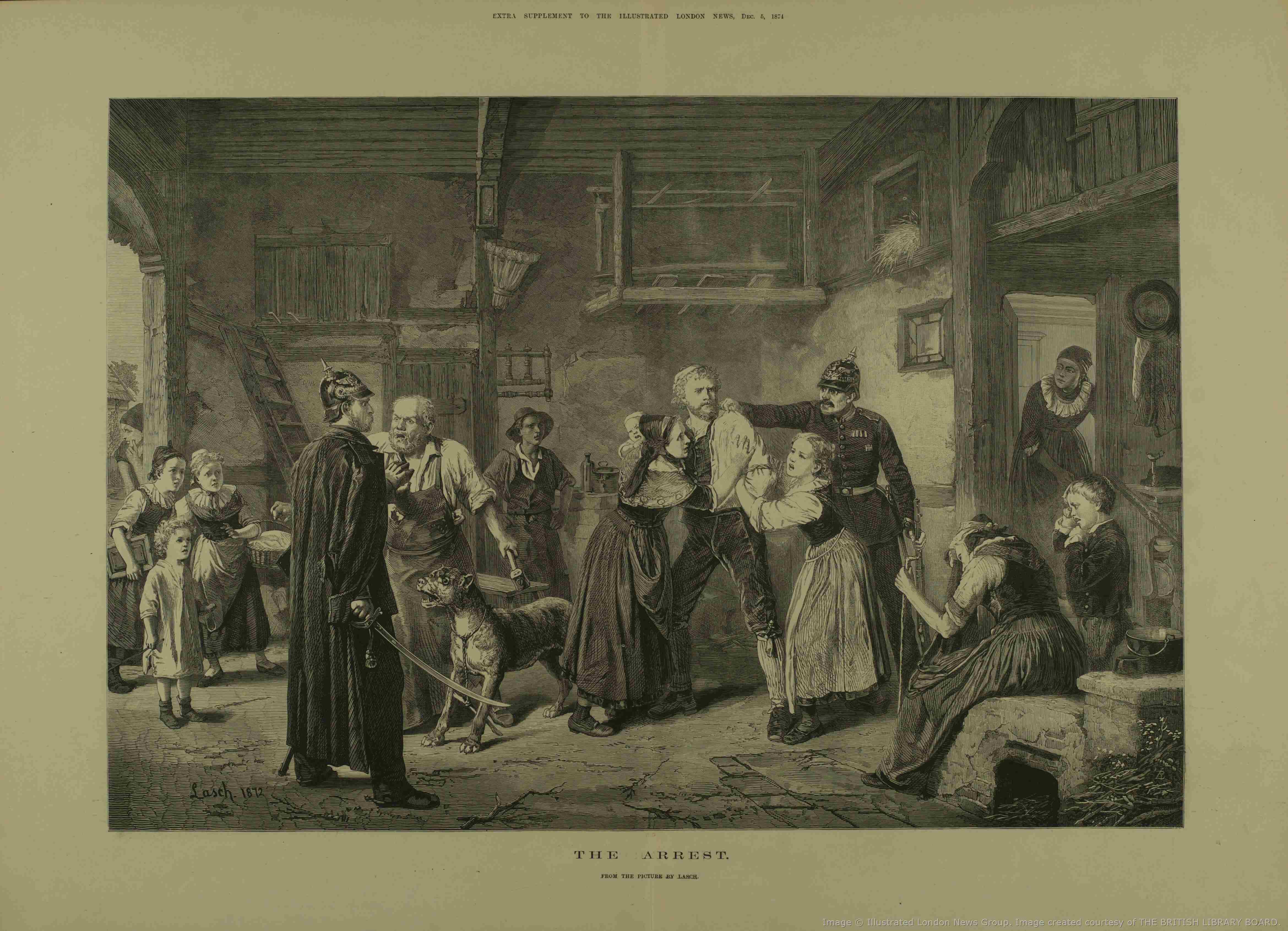 Capture of a Franc-Tireur (Special gold Medal at Berlin, Vienna and Dresden).